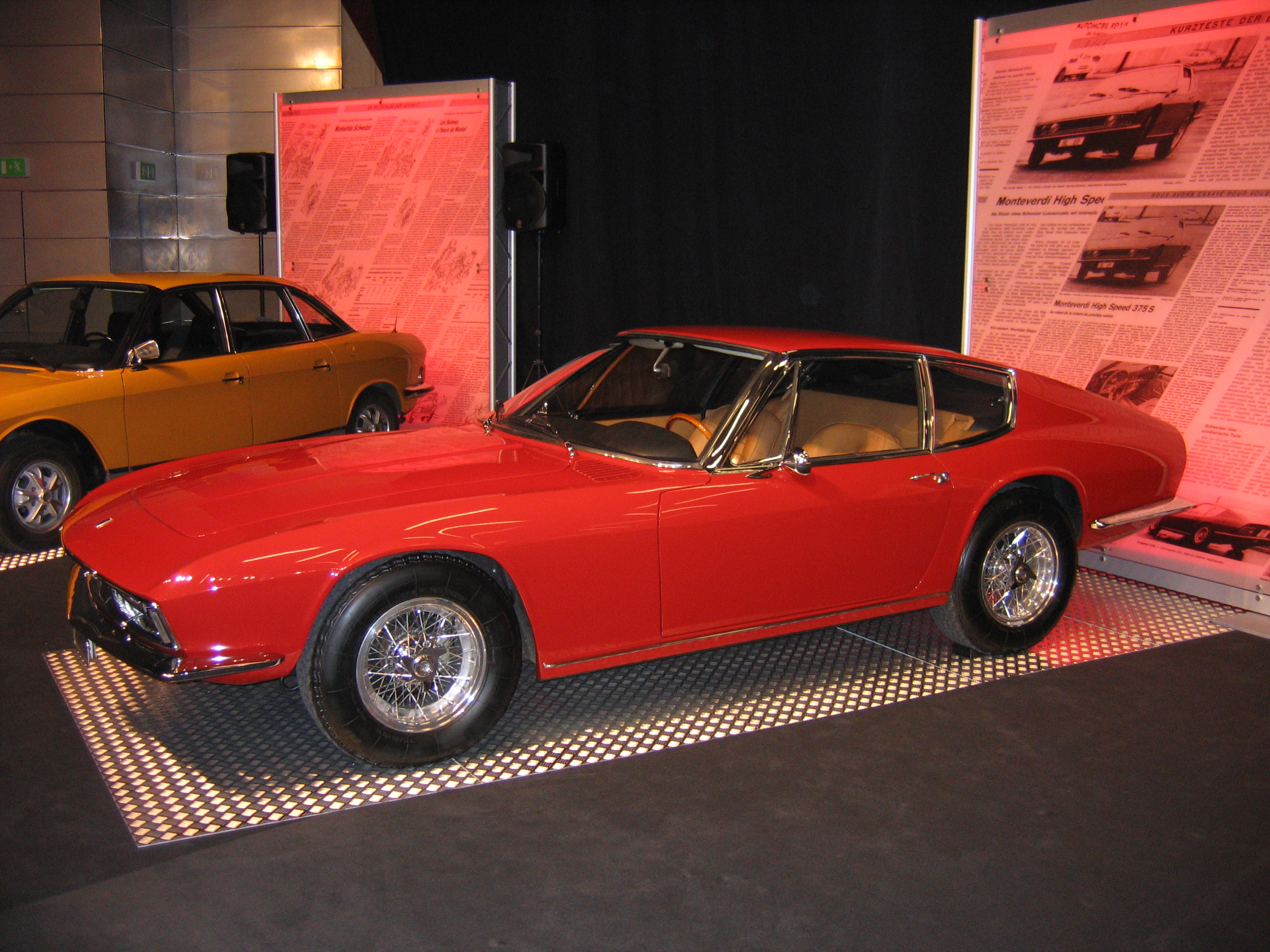 Geneva Motor Show 2006